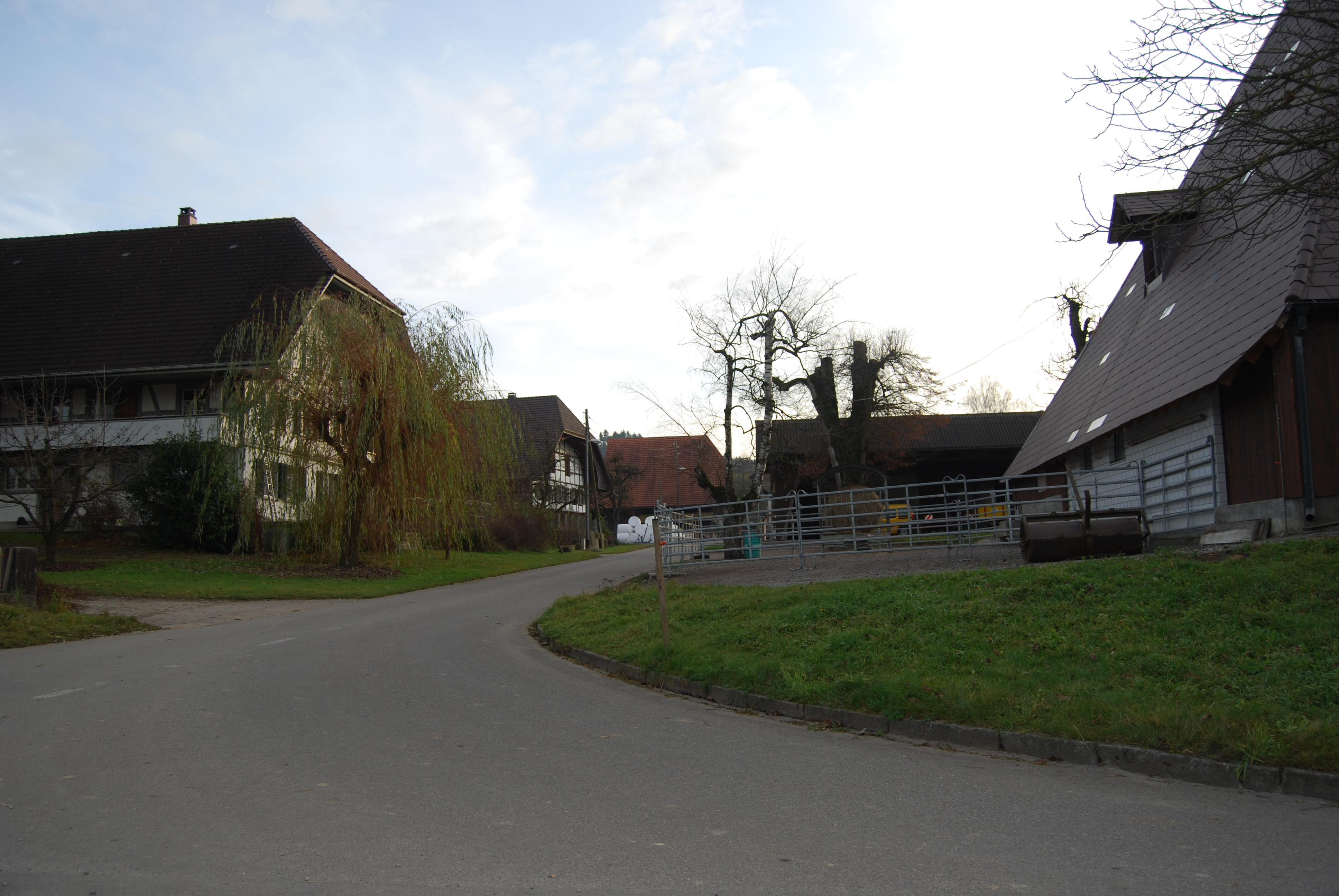 Höchstetten, canton of Bern, SwitzerlandEsperanto: Höchstetten, Kantono Berno, Svislando